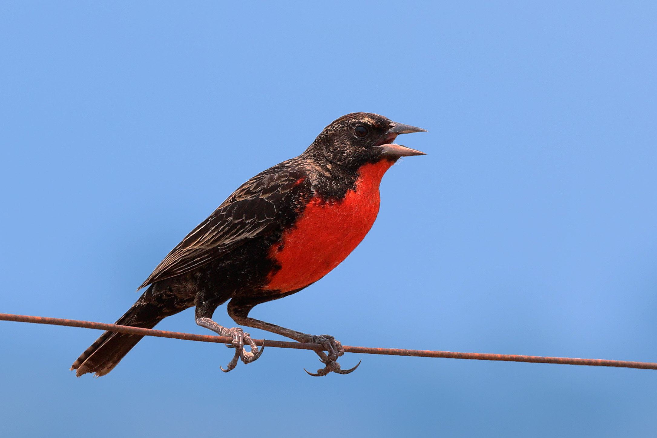 White-browed blackbird (Sturnella superciliaris) juvenile male, north of Alta Floresta, Southern Amazon, Brazil